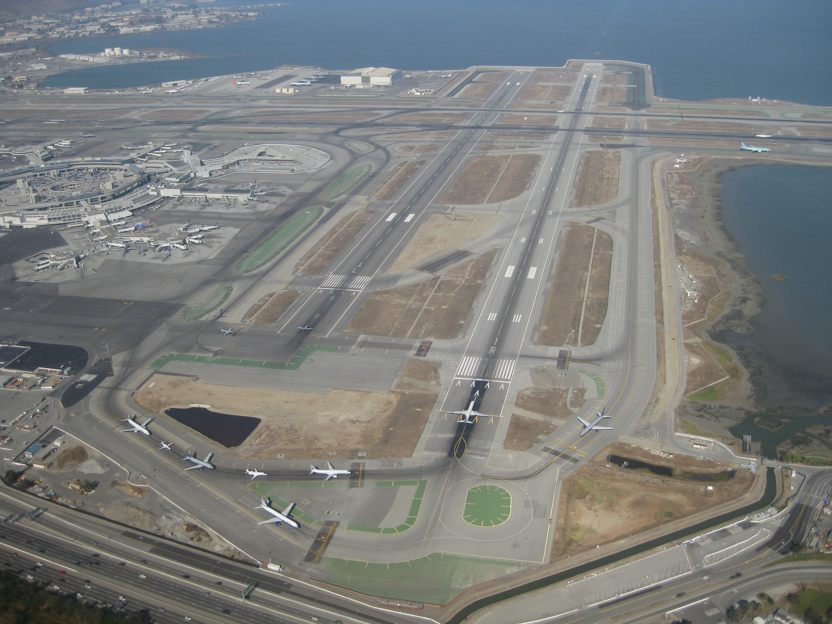 San Francisco International Airport, Jets lining up for 1L and 1R